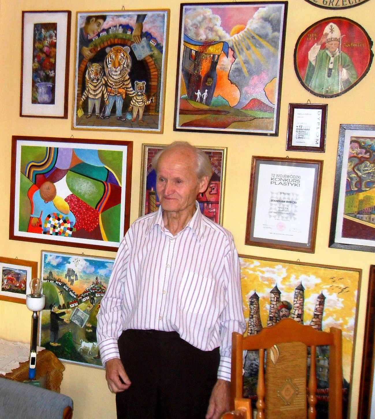 Stanislaw Rybicki, Polish amateur painter from Ustrobna (summer 2010).